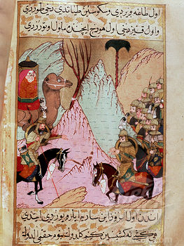 Muhammad's widow, Aisha, battling the fourth caliph Ali in the Battle of the Camel. Miniature from the Siyer-i Nebi, Turkish epic about the life of Muhammad, written by Mustafa, son of Yusuf of Erzurum. . 16th century. Topkapi Sarayi Museum Library, Istanbul, Turkey